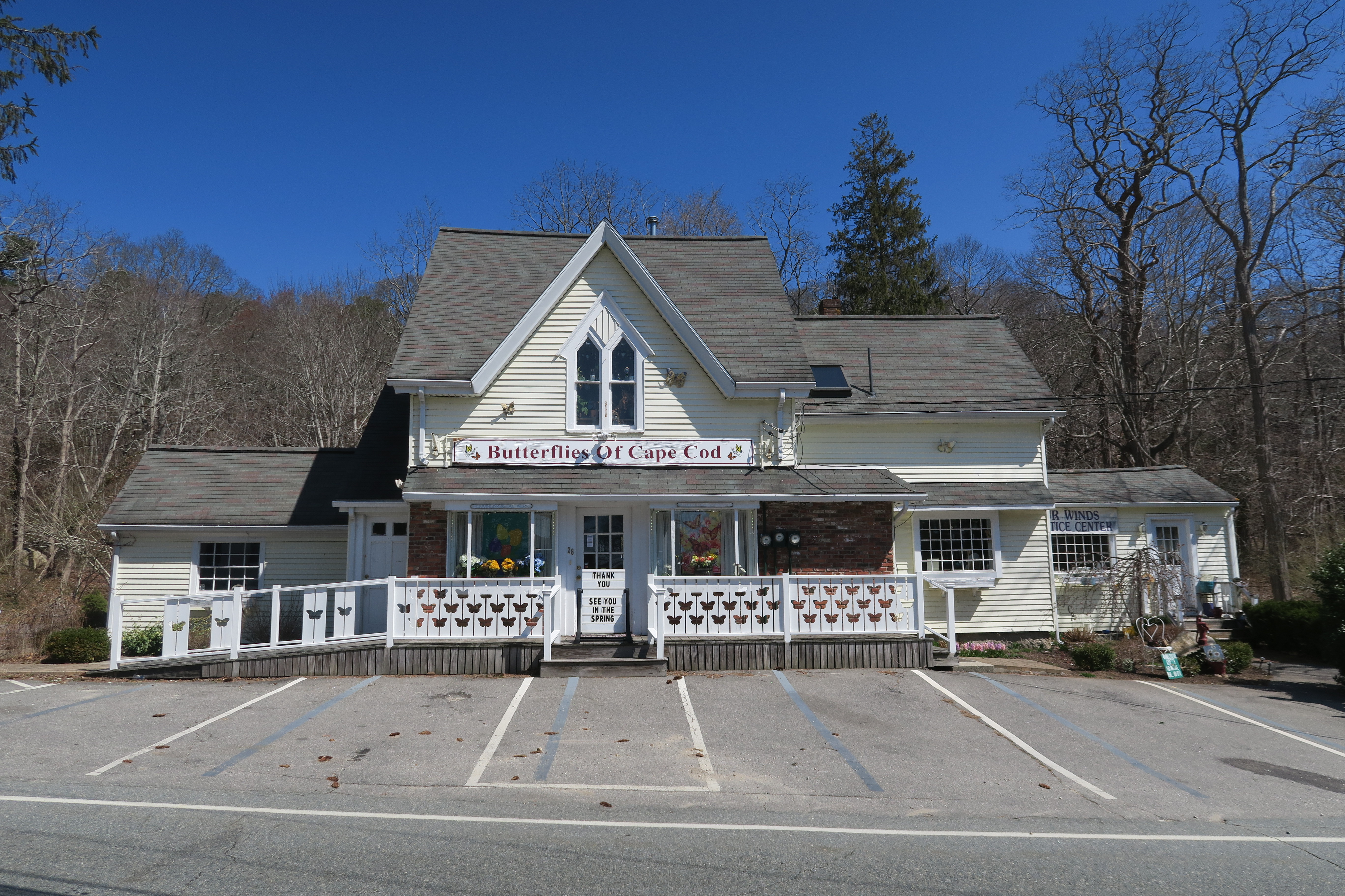 Butterflies of Cape Cod, Bournedale Massachusetts